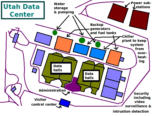 The National Security Agency of the United States is building a giant data center in Bluffdale, Utah. It will cost $2 billion and collect so-called "yottobytes" of information; a yottobyte is a septillion bytes (10^24). According to one report, "It’s a state-of-the-art facility designed to support the intelligence community in its mission to, in turn, enable and protect the nation’s cybersecurity." It will collect a wide range of data about people to prevent terrorism. In addition, it will have powerful computers built to decipher encrypted information.